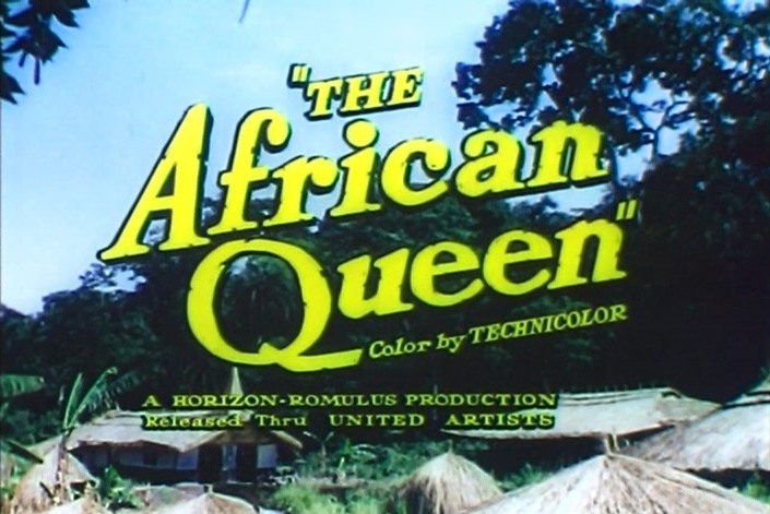 Screenshot from the trailer for the film The African Queen.